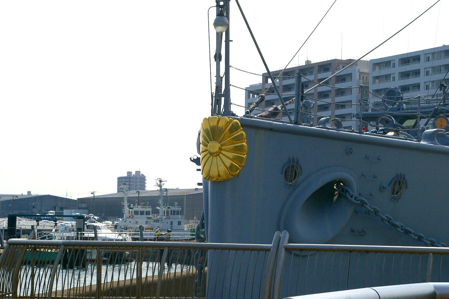 Imperial Seal of Japan.